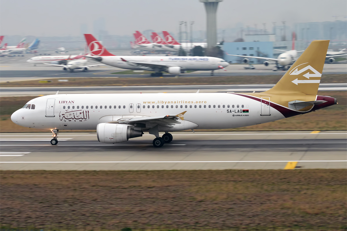 Libyan Airlines, 5A-LAQ, Airbus A320-214